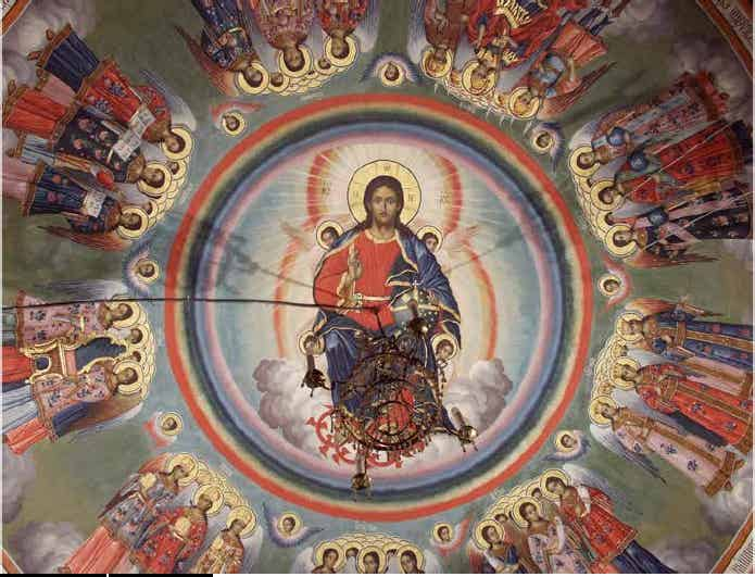 Archangels Chapel in Rila Monastery Pantokrator_Fresco_in_the_dome_of_the_naos - 1835